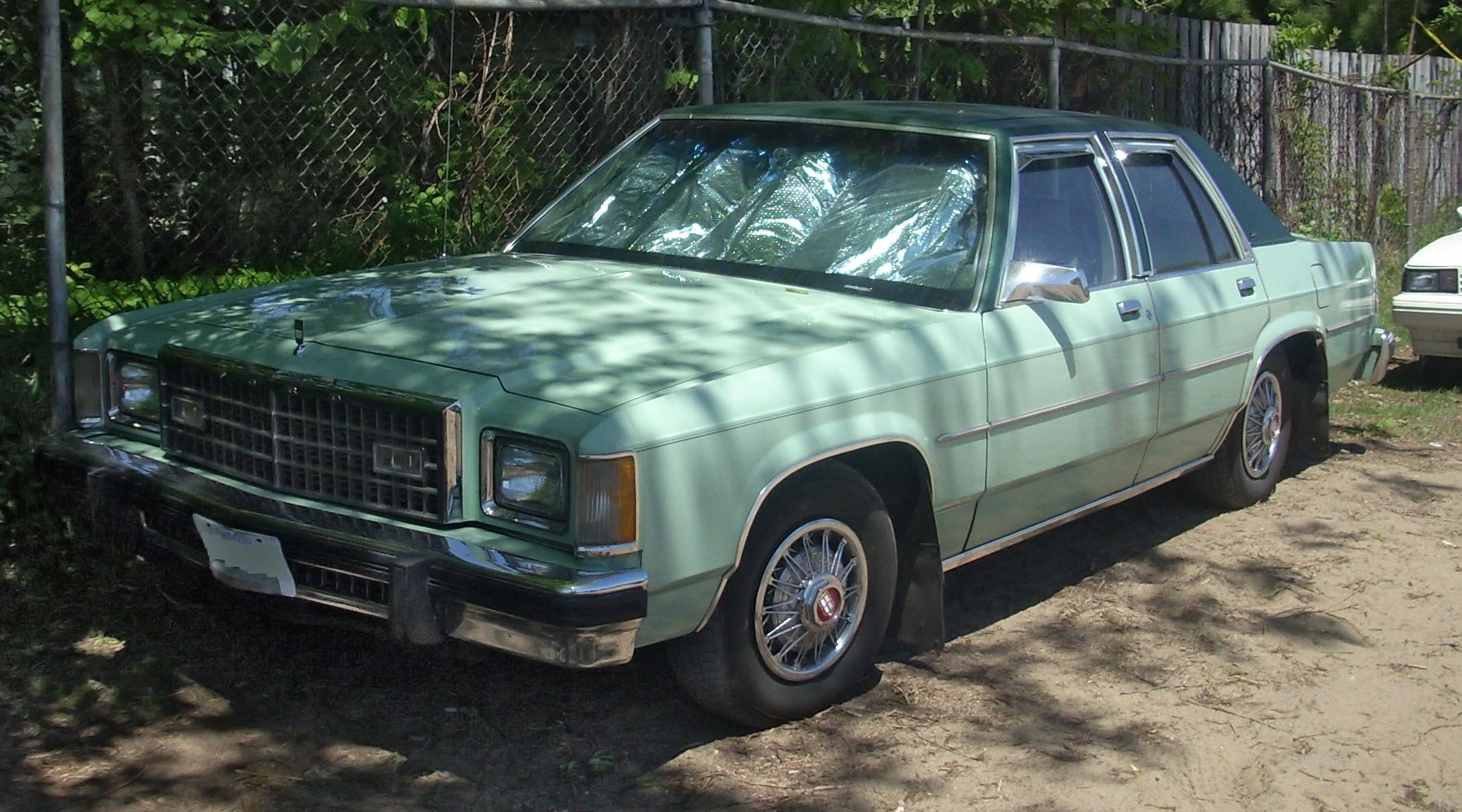 1979 Ford LTD photographed at the 2008 Hudson British Car Show. This is the base-trim sedan with two headlamps.